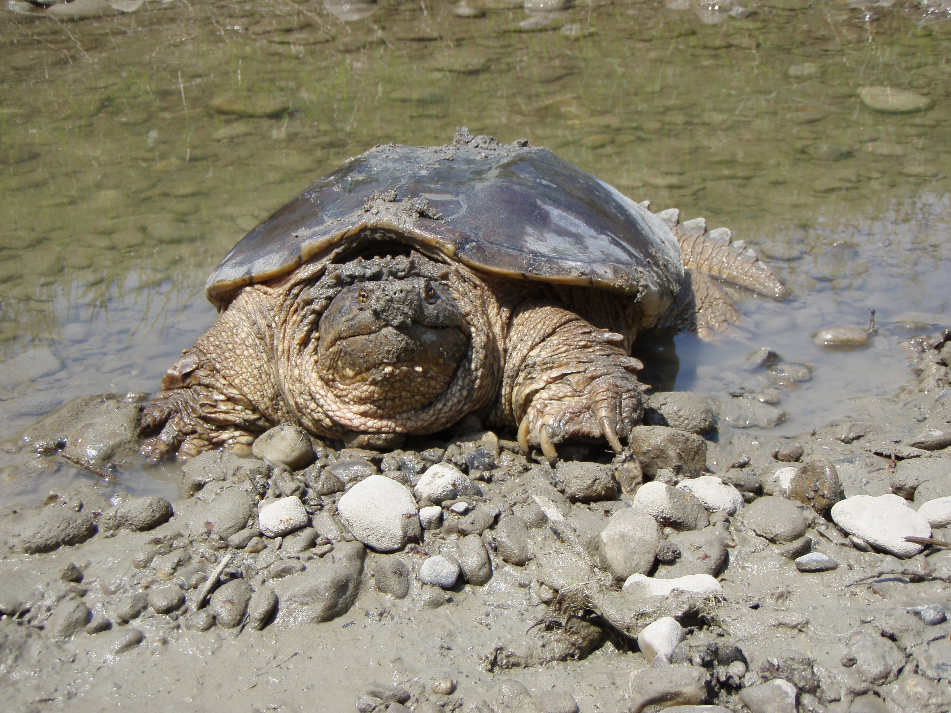 Snapping turtle (Chelydra serpentina). Taken in Ontario, Canada.